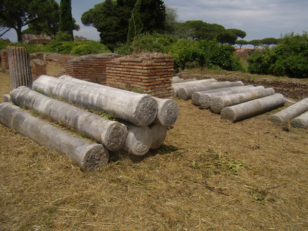 Ostia, Tempio dei Fabri Navales (III,II,1-2), columns